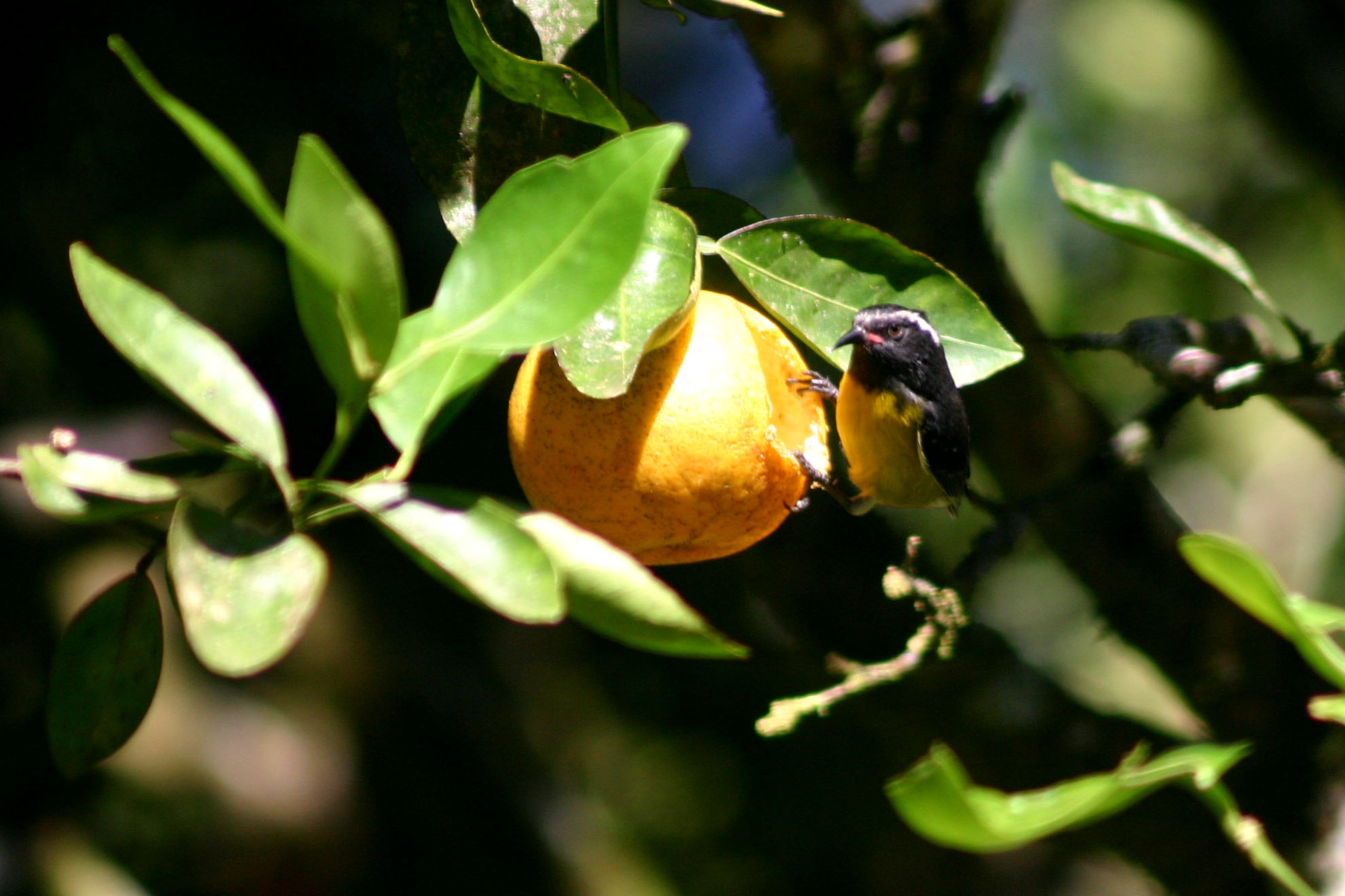 Bananaquit photographed feeding on an orange in its natural habitat in the Morne Diablotins National Park in Dominica. Guide was local expert 'Dr Birdy' Bertrand Baptiste